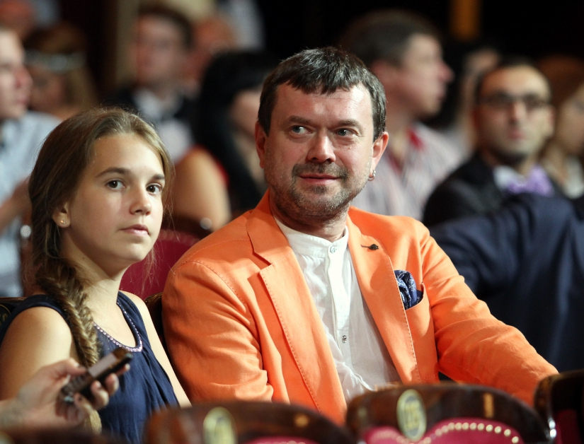 Ostap Stupka, Odessa International Film Festival, July 2013